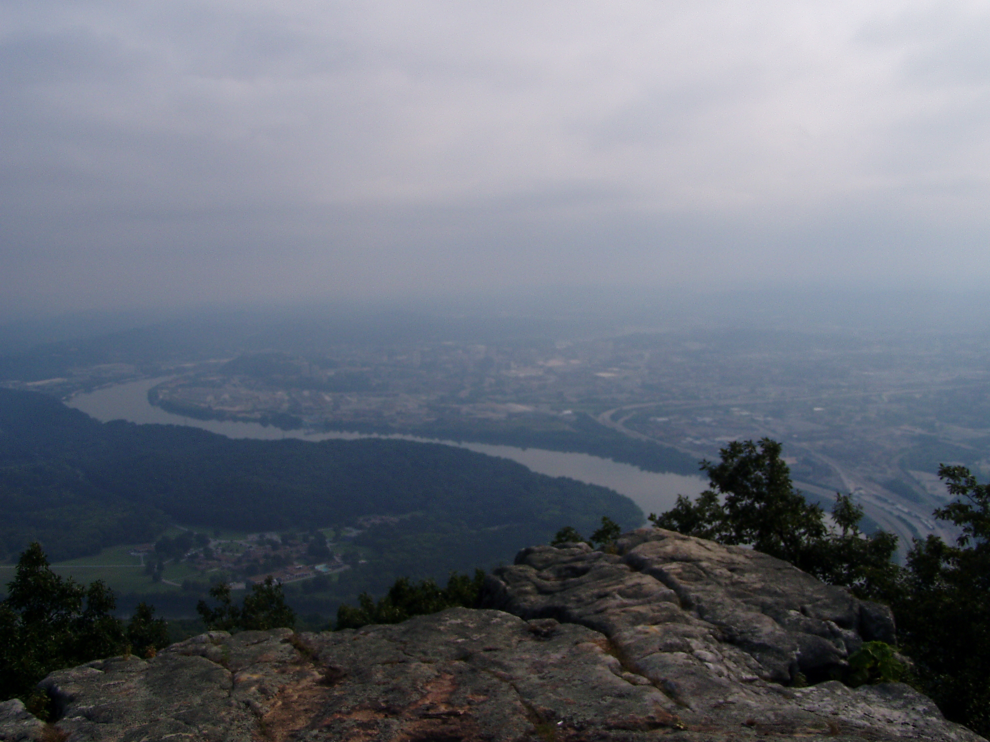 Moccasin Bend of the Tennessee River from Lookout Mtn., Chattanooga, TN.